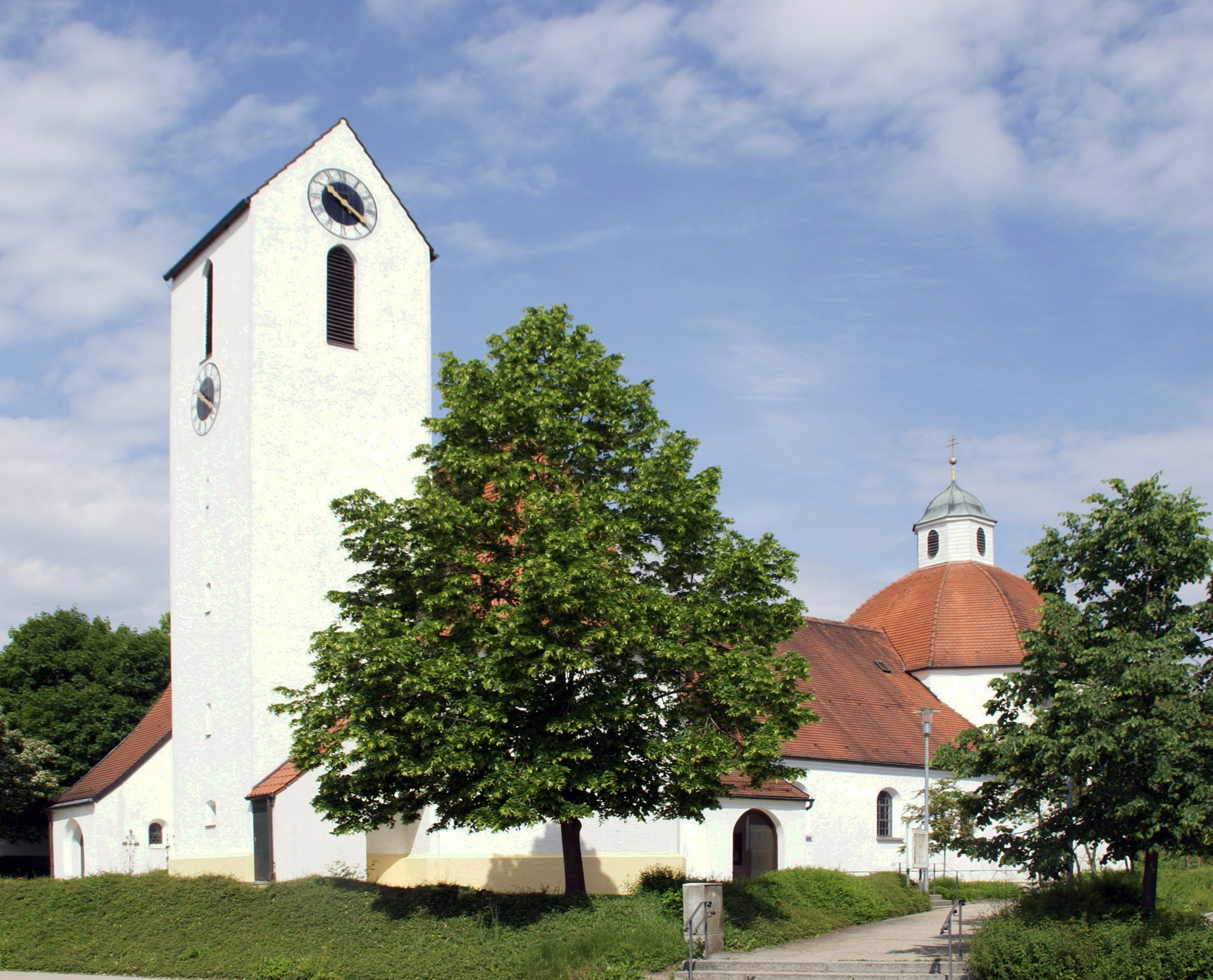 Catholic parish church of St. Johann Baptist in Töging am Inn, Hauptstraße 9